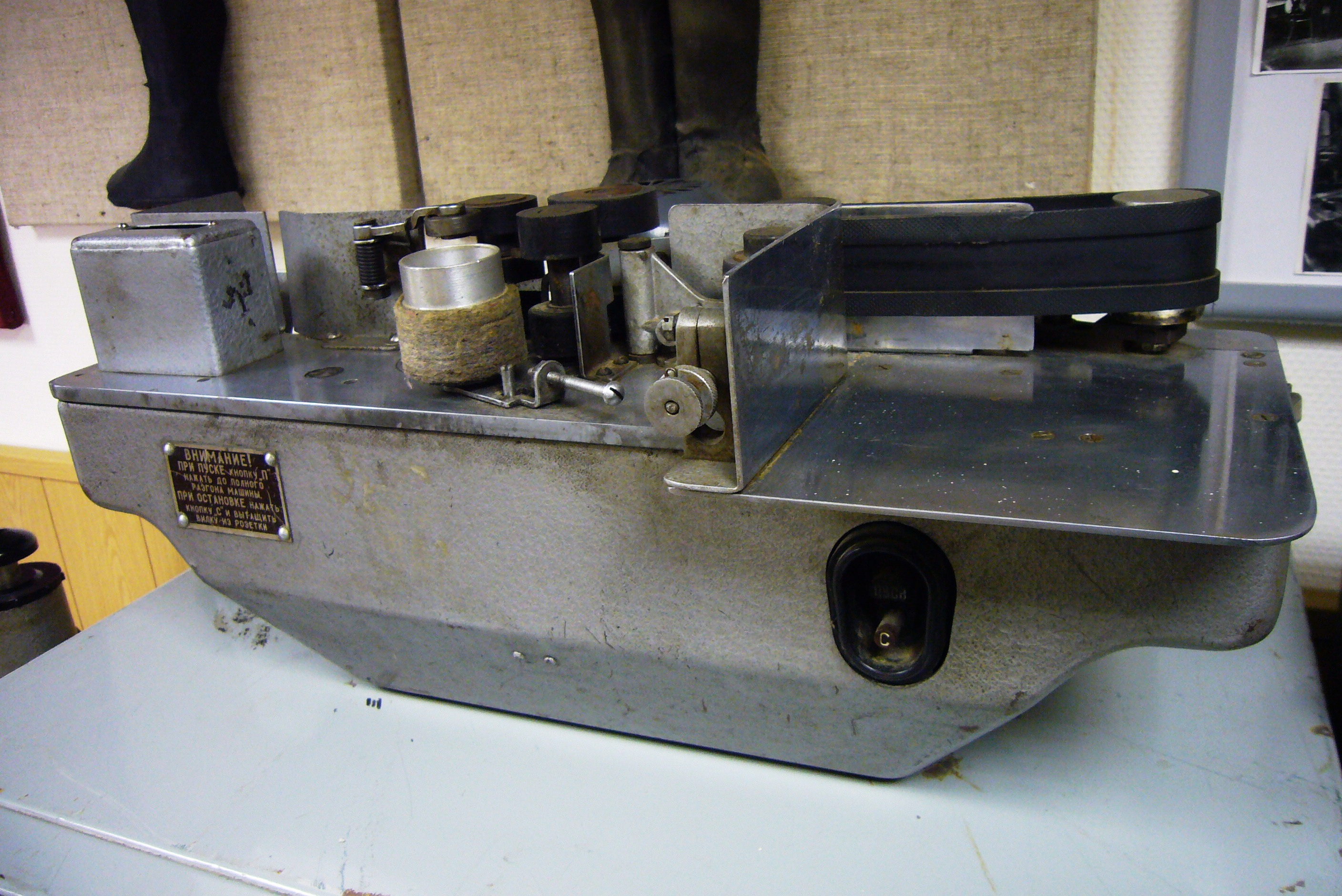 USSR letter stamping machine. Postal Museum, Moscow, Russia.